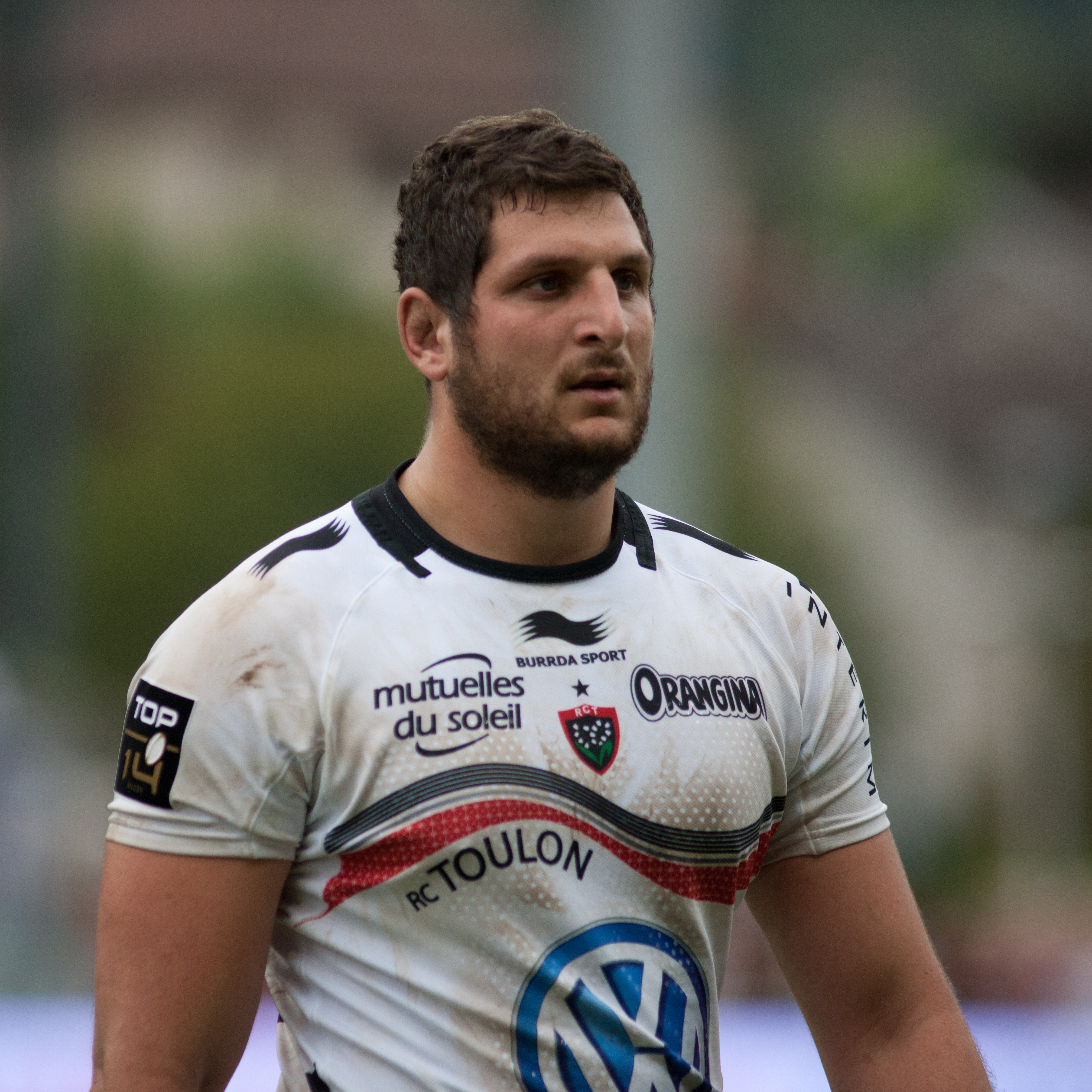 The making of this document was supported by Wikimedia CH. (Submit your project!) For all the files concerned, please see the category Supported by Wikimedia CH. US Oyonnax - Rugby club toulonnais, 28th September 2013